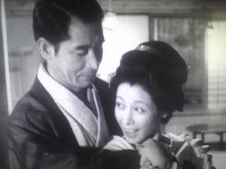 So Yamamura and Chikage Awashima in 1953 Japanese movie An Inlet of Muddy Water